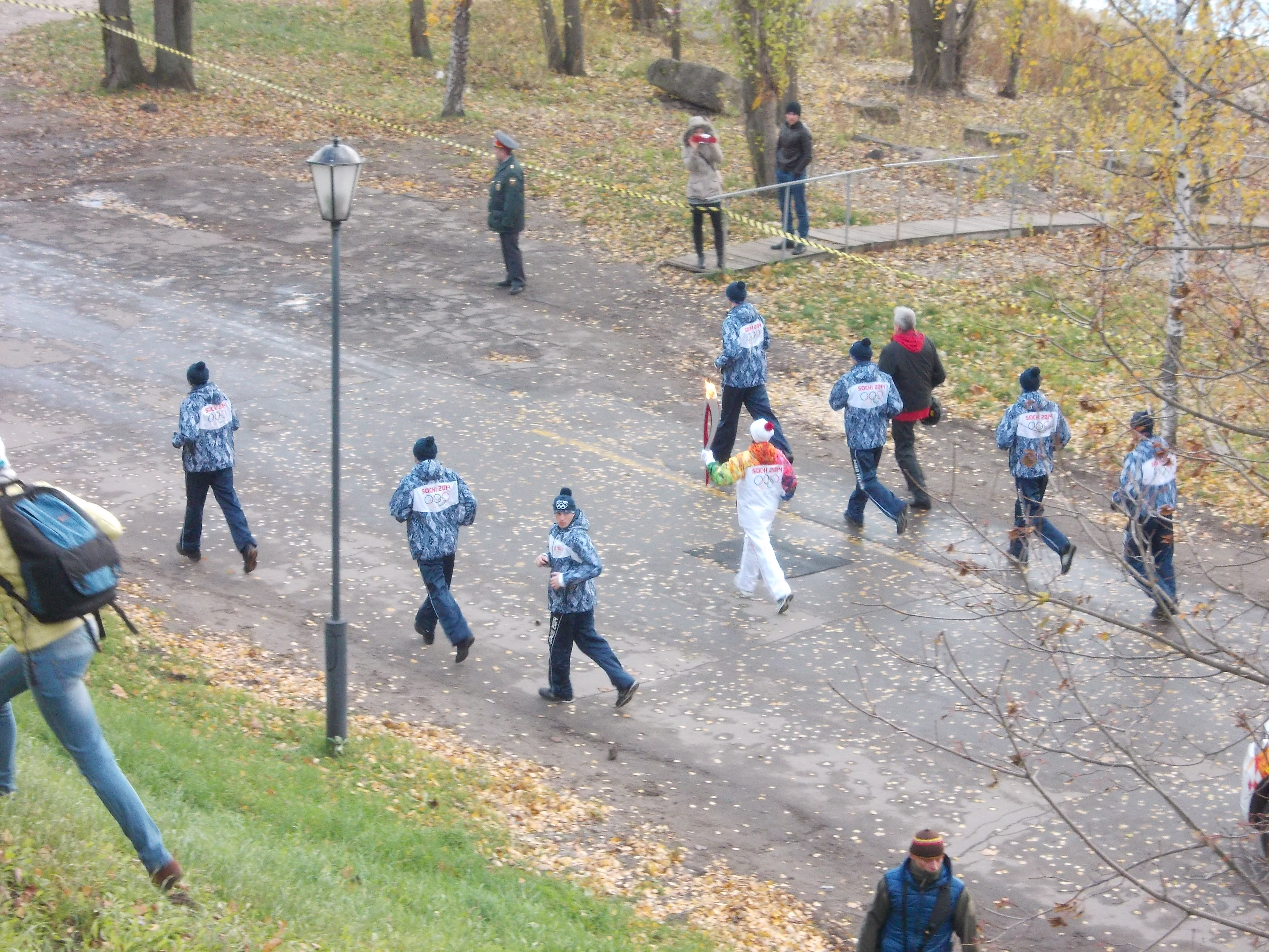 2014 Winter Olympics torch relay in Yaroslavl.